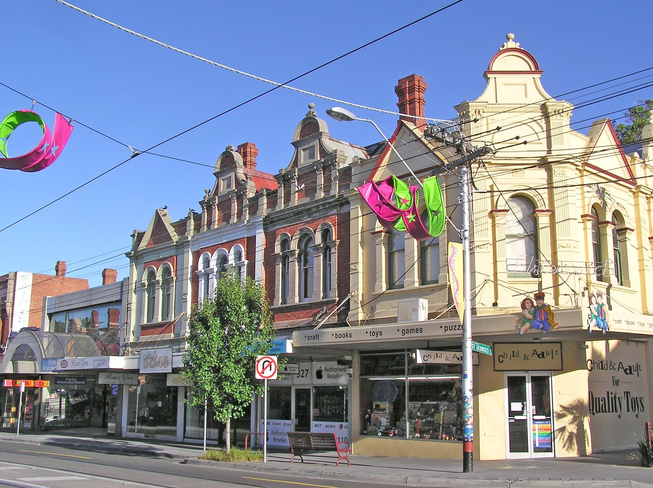 Shops in Elsternwick.